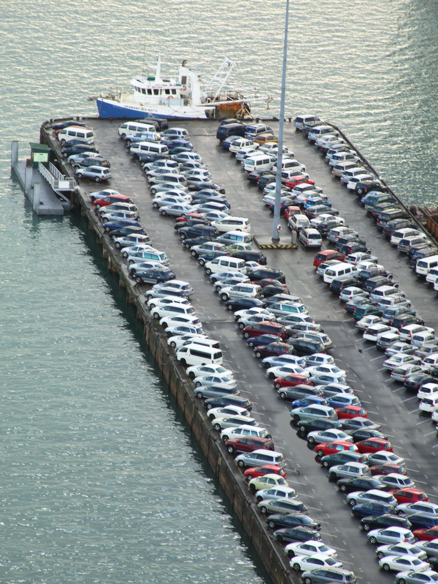 The car import yard at the Port of Auckland, waiting for inspection before being let into the country.